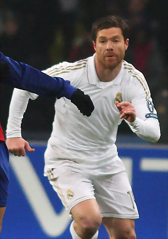 Xabi Alonso